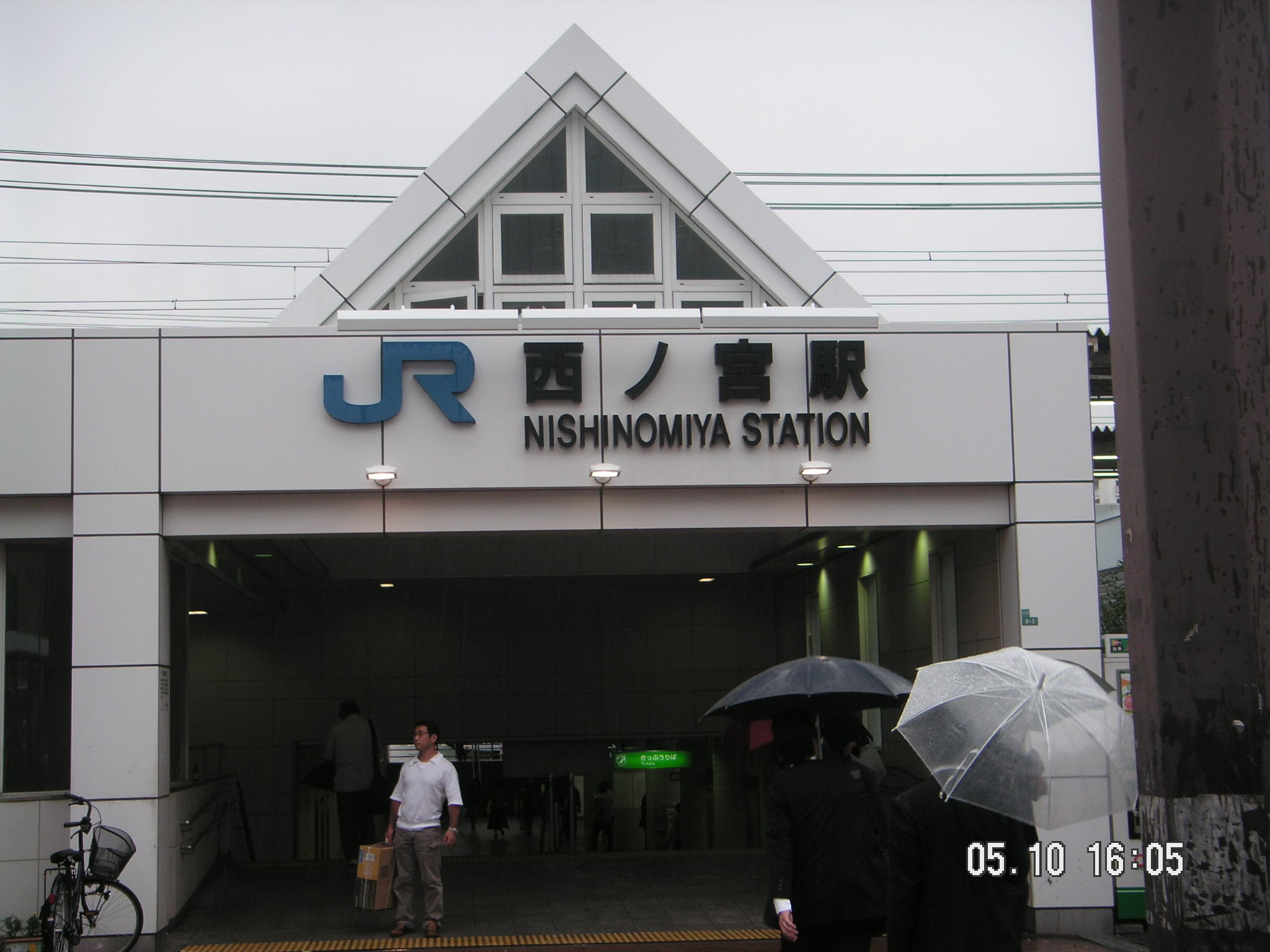 JR Station Nishinomiya